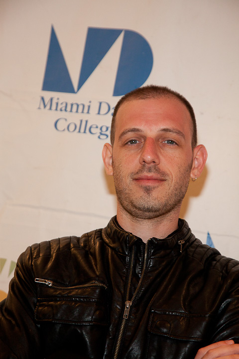 Director Nicolas Goldbart at the 2011 Miami International Film Festival showing of Fase 7 at the Regal 10, 03/11/2011